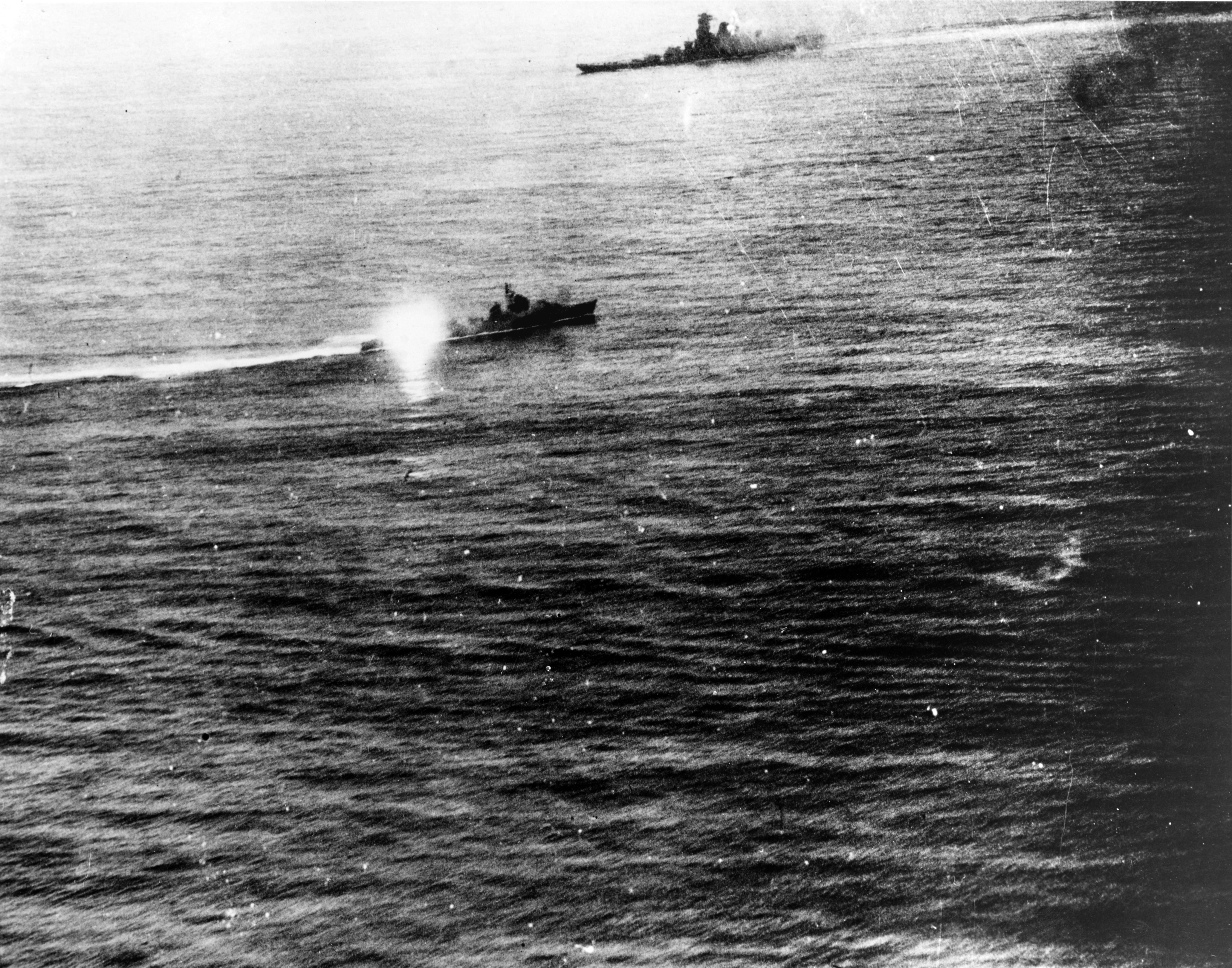 Operation "Ten-Go": The Japanese battleship Yamato and a destroyer in action with U.S. Navy carrier planes north of Okinawa on 7 April 1945. Yamato appears to be down at the bow and moving slowly after being hit by multiple air attacks. The destroyer is probably Fuyuzuki and appears to have fired her after 10cm guns at the instant this photo was taken.